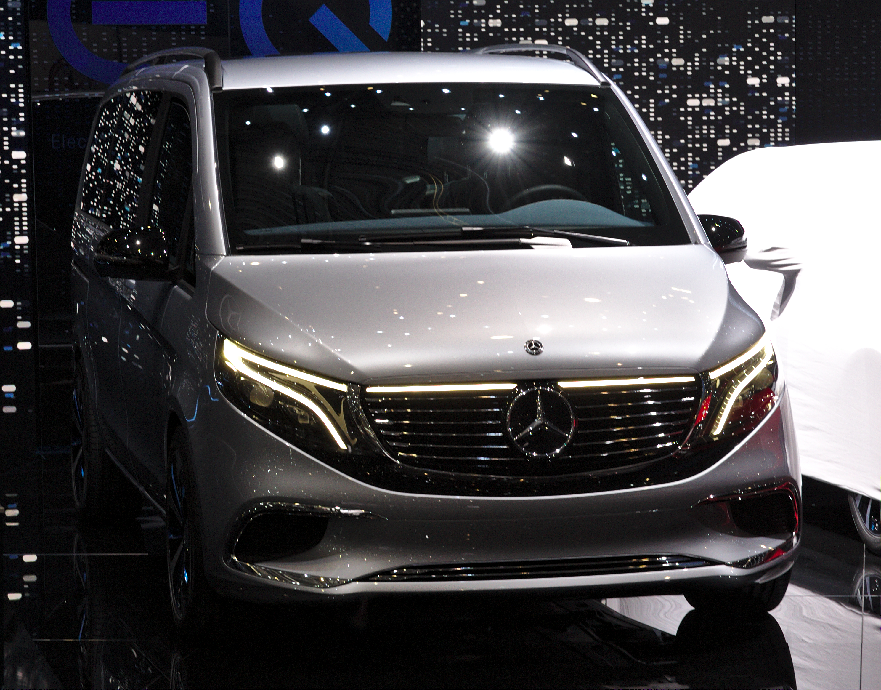 Mercedes-Benz EQV Concept at Geneva Motor Show 2019